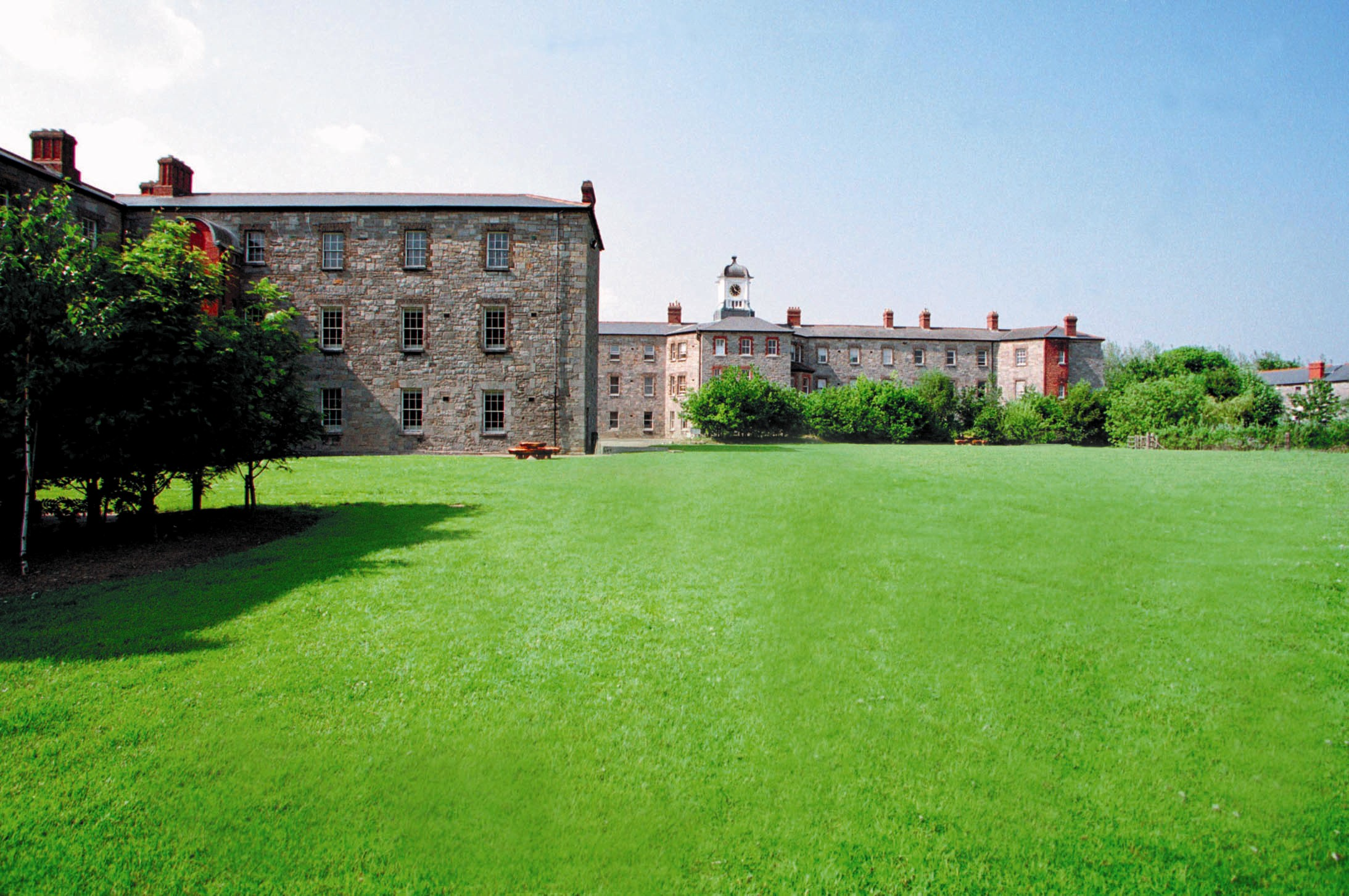 Griffith College Dublin campus green